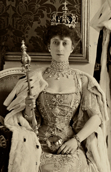 Maud of Wales with her regalia as queen of Norway